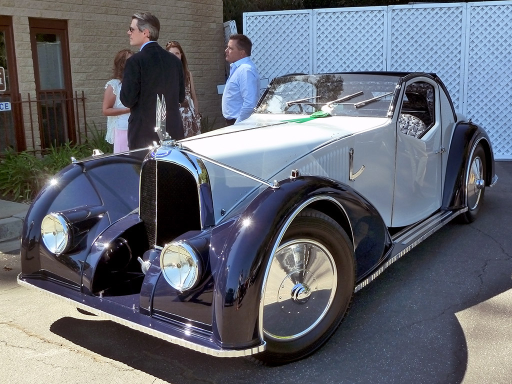 Best in Show. 2011 Greystone Mansion Concours d'Elegance, May 1, Beverly Hills CA.